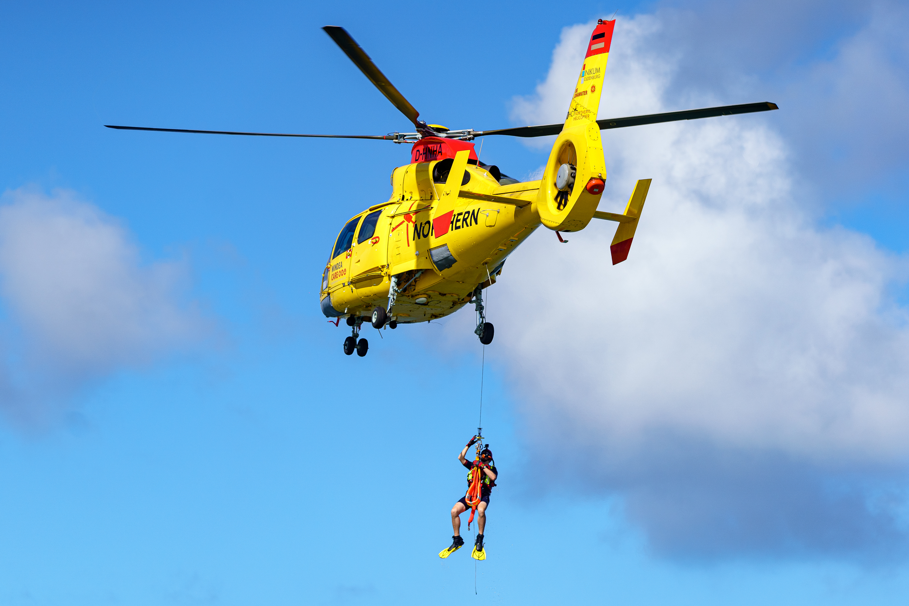 A rescue helicopter of Northern HeliCopter GmbH during an operation on the North Sea coast.